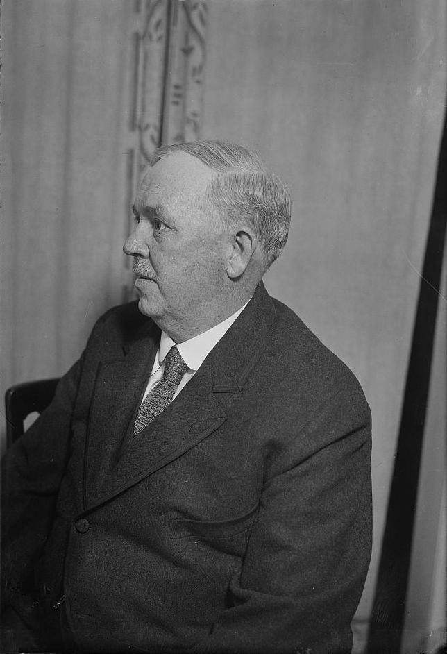 Dan Beddoe facing left in 1918